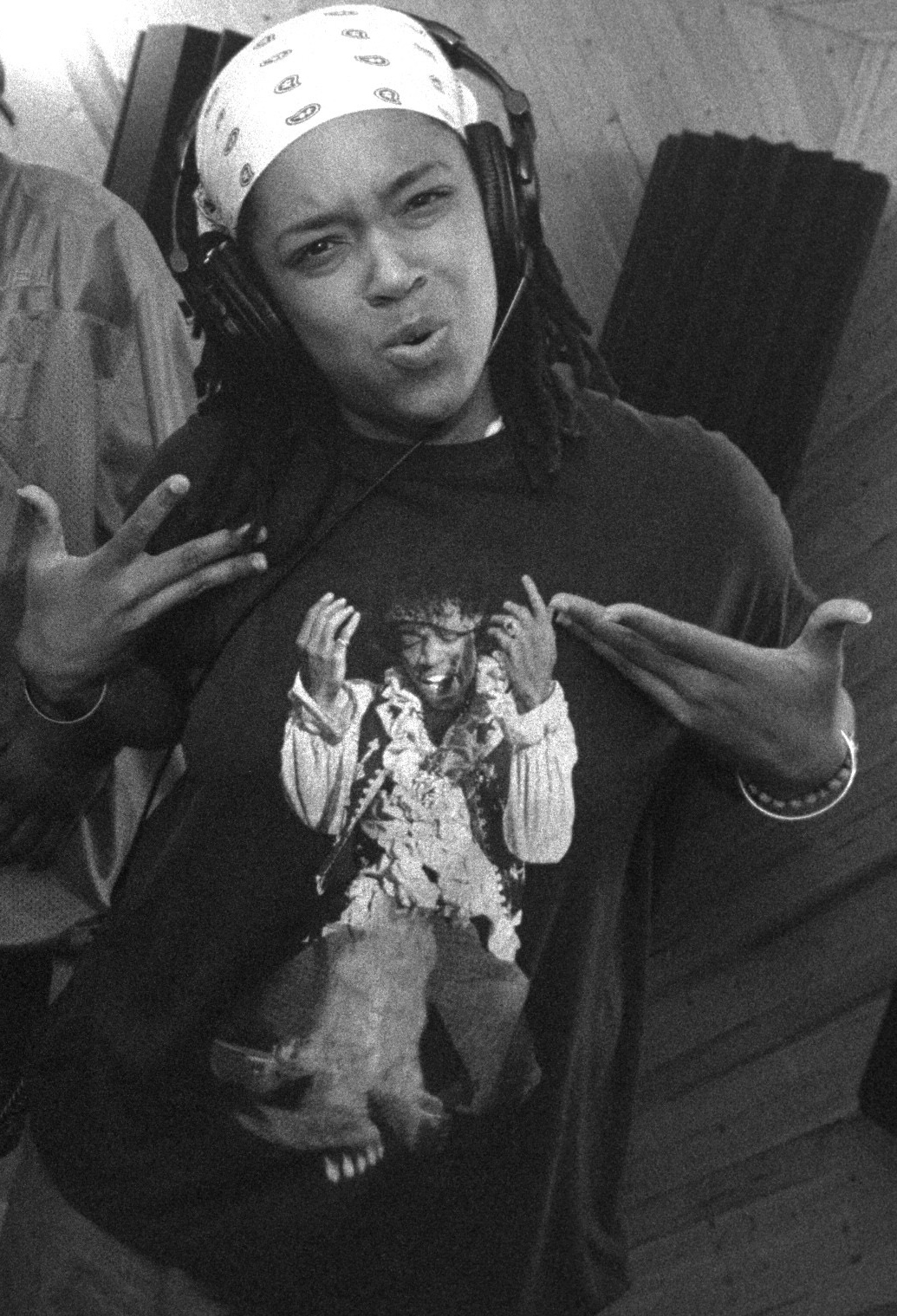 Jenny Salgado alias J.kyll